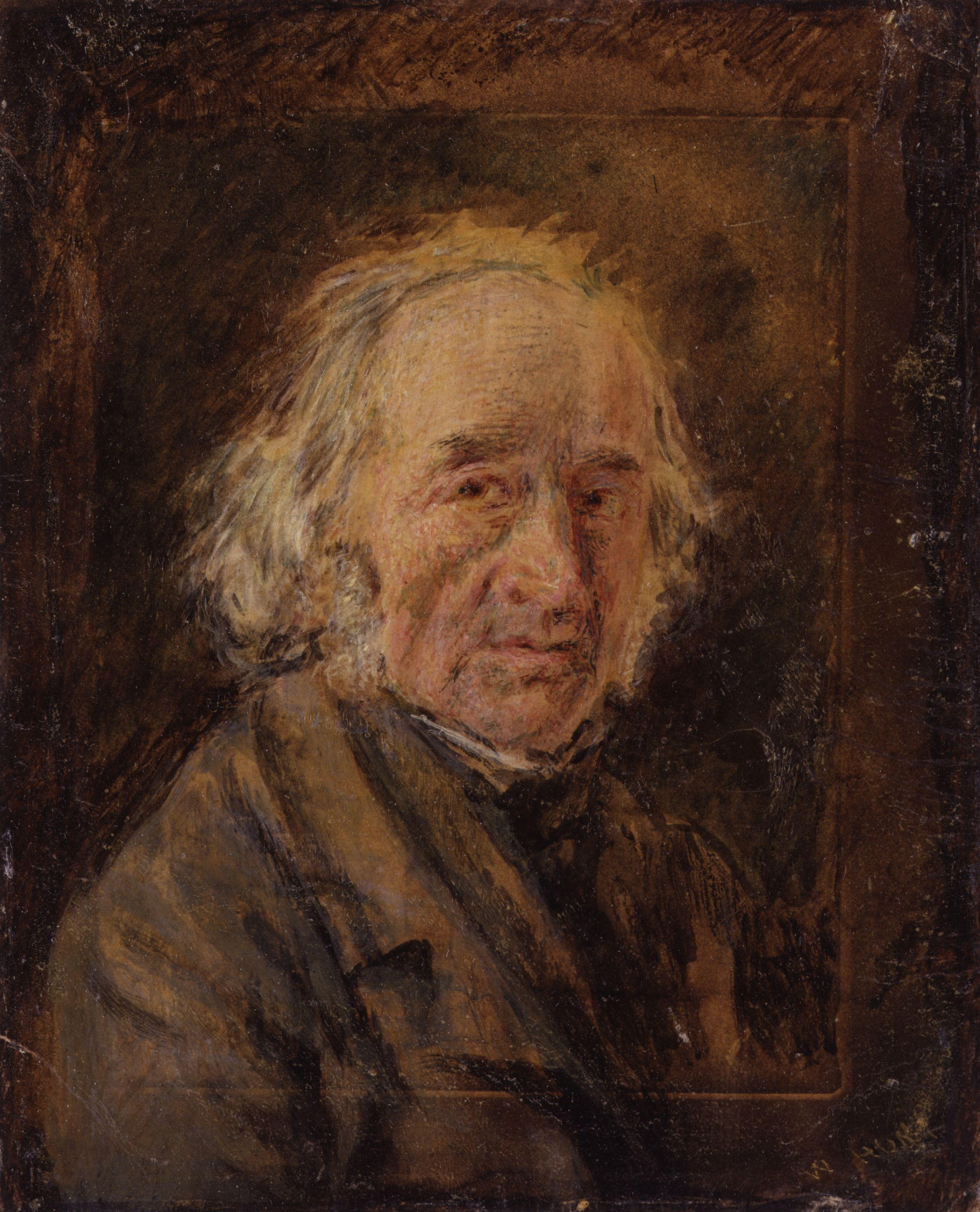 William Henry Hunt, by William Henry Hunt (died 1864), given to the National Portrait Gallery, London in 1887. All images in this batch have been confirmed as author died before 1939 according to the official death date listed by the NPG.